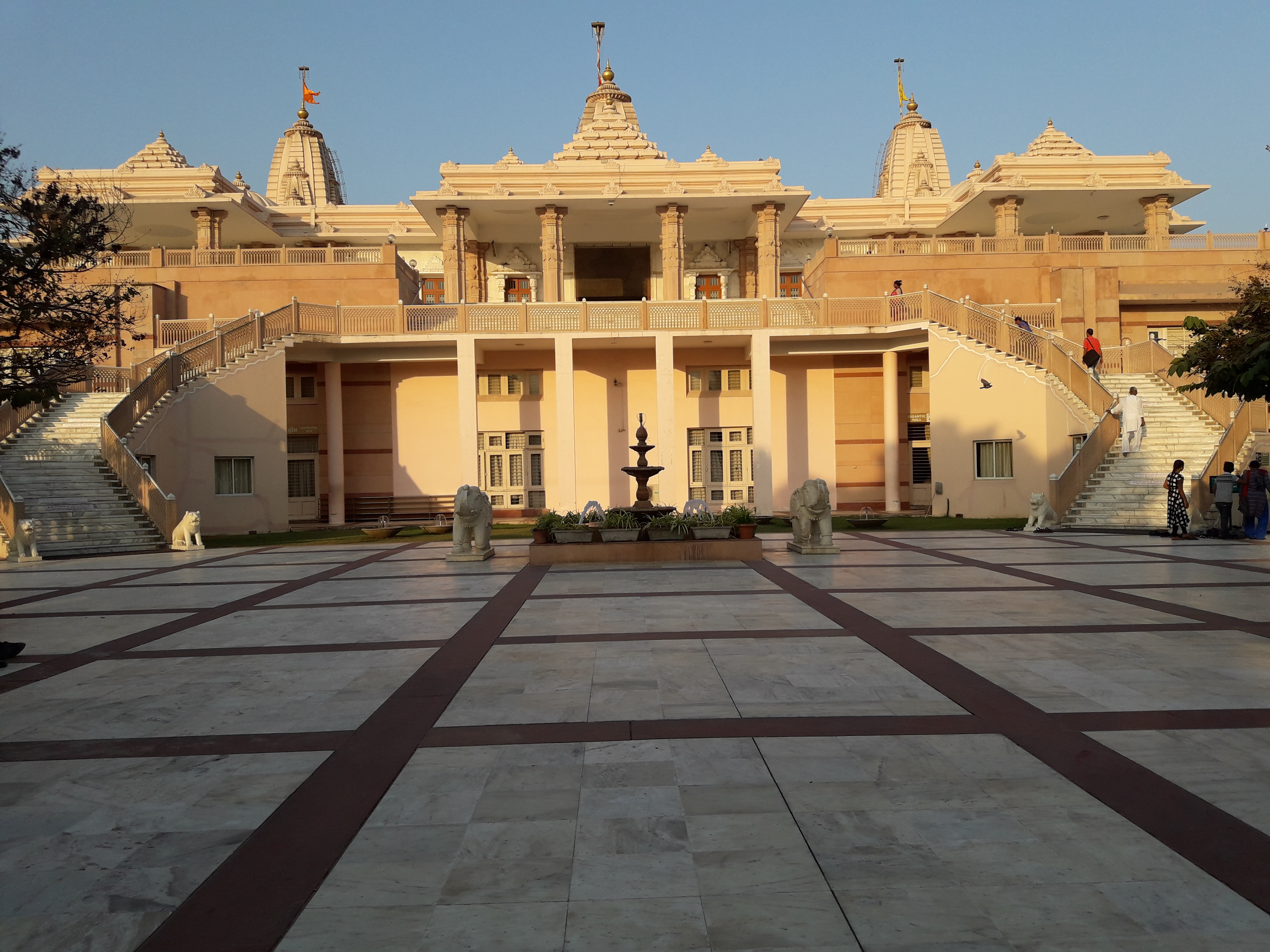 Trimandir Temple, Adalaj, Gujarat, India